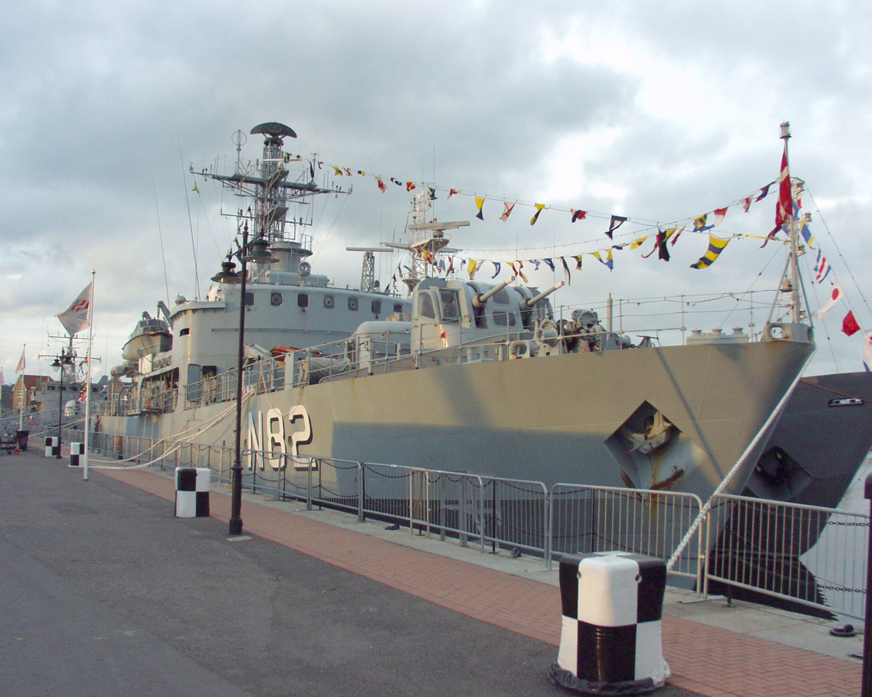 Danish naval minelayer N82 Møen in 2002